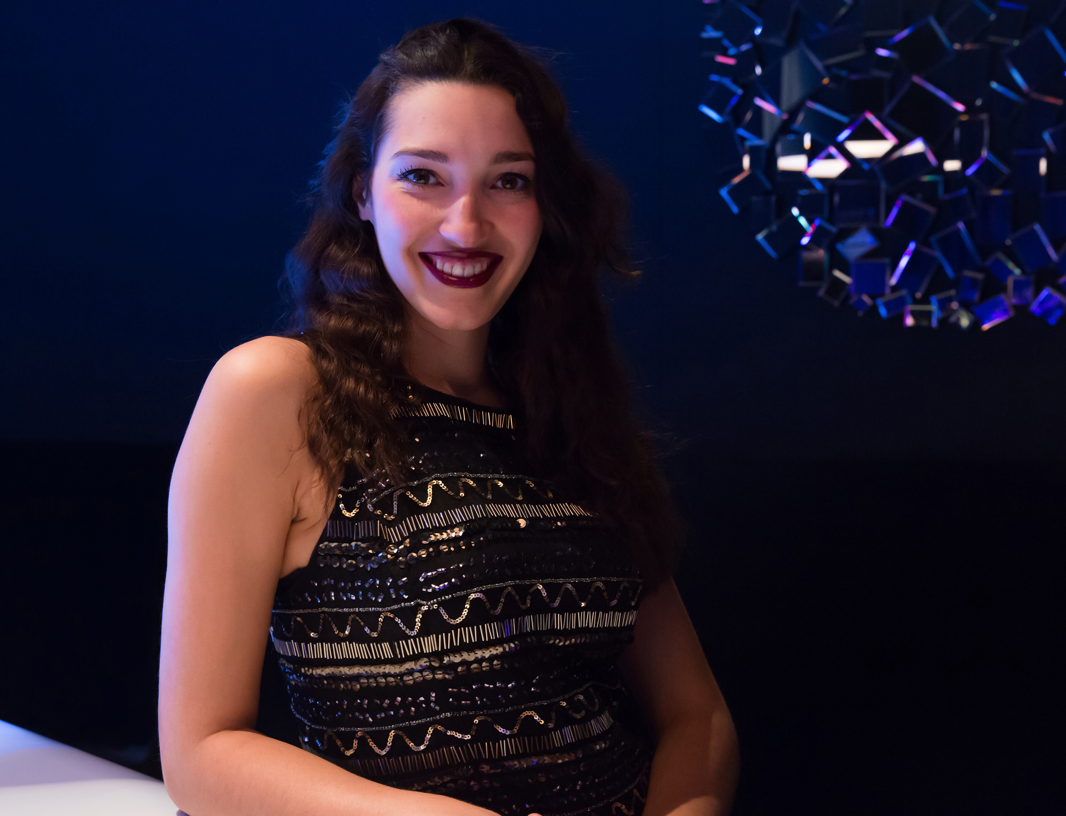 Celina Ann at the concert of the Austrian candidates for participating at the Eurovision Song Contest 2015; Chaya Fuera, Vienna,Austria.